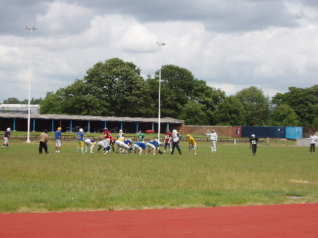 Linford Christie Stadium, Wormwood Scrubs. Taken on a Sunday afternoon, training for American Football was in progress.